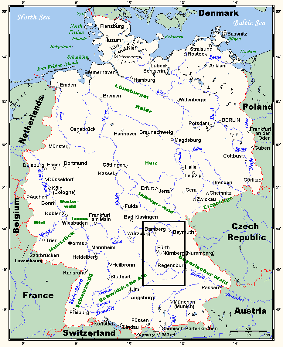 Map of Germany. Marked the limits of penetration Franconian Alb